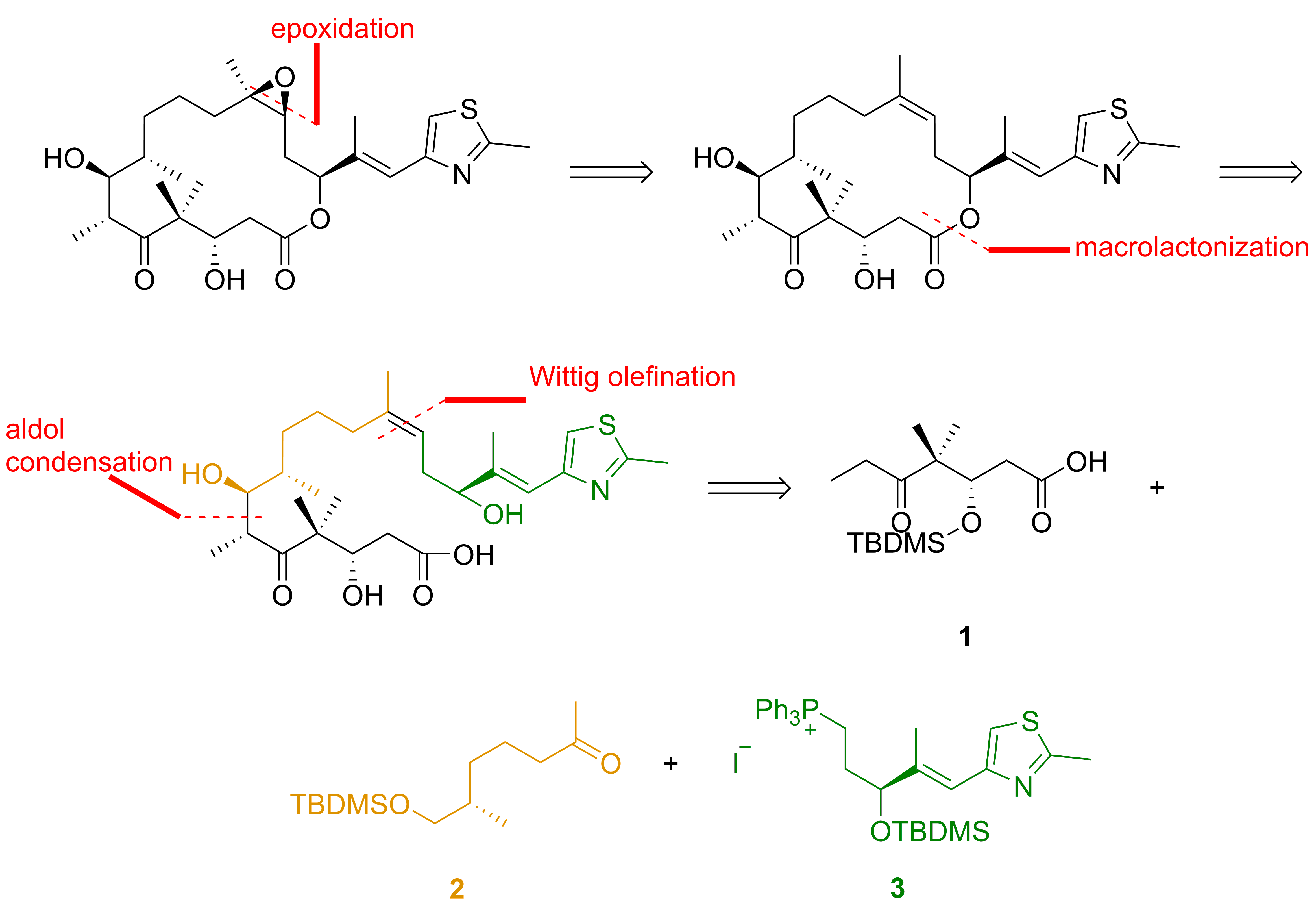 Retrosynthetic analysis to epothilone B. This retrosynthesis was outlined by Kyriacos Nicolaou et al. in 1997. The file was made by ChemBioDraw Ultra 13. As a reference, the digital object identifier is This image replaces the original one ( made by Cuigy because this original version is in graphics interchange format having lower quality. In addition, the retrosynthetic arrows, both in the scholarly paper and in the original image, are incorrect.